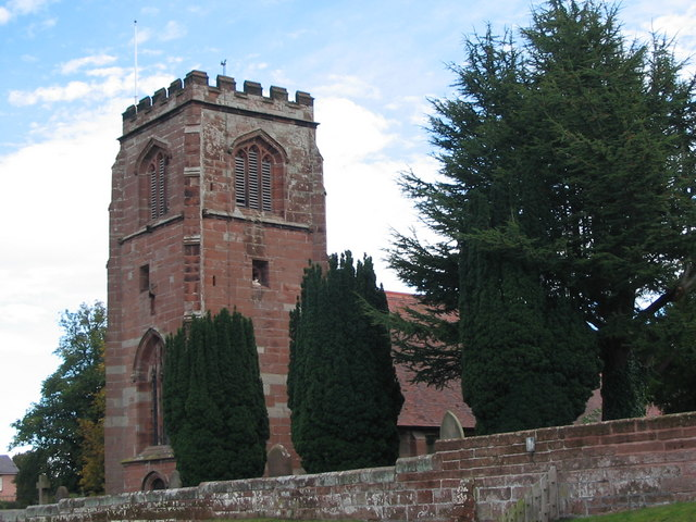 Photograph